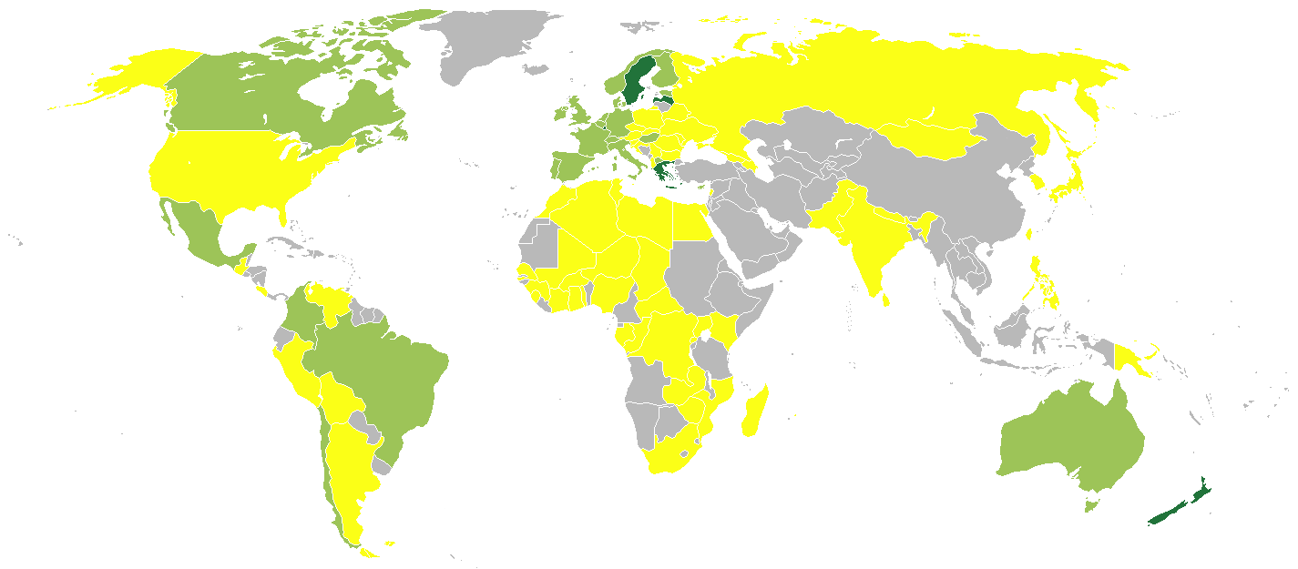 A map of Global Greens parties in national government (dark green), national parliament (light green), and without MPs (yellow).